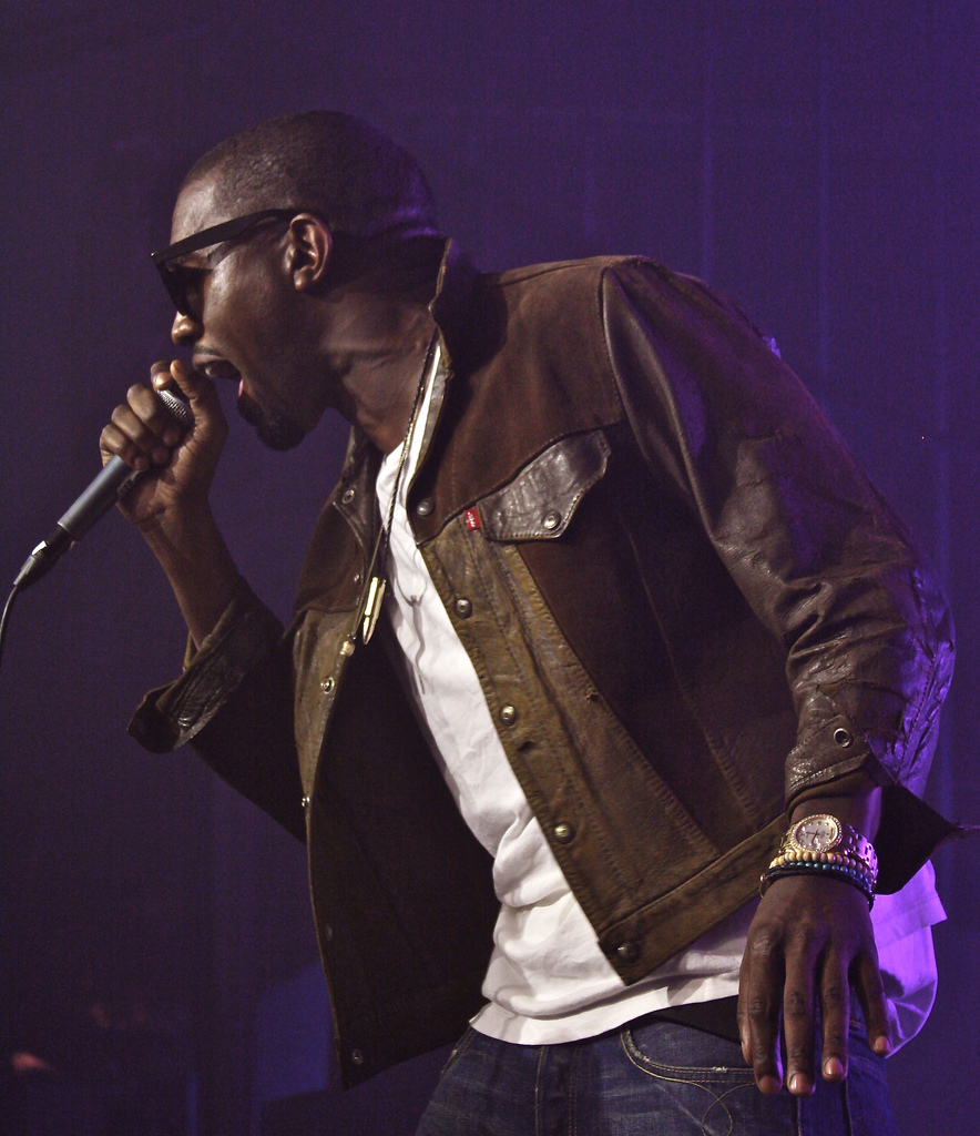 Kanye West performing